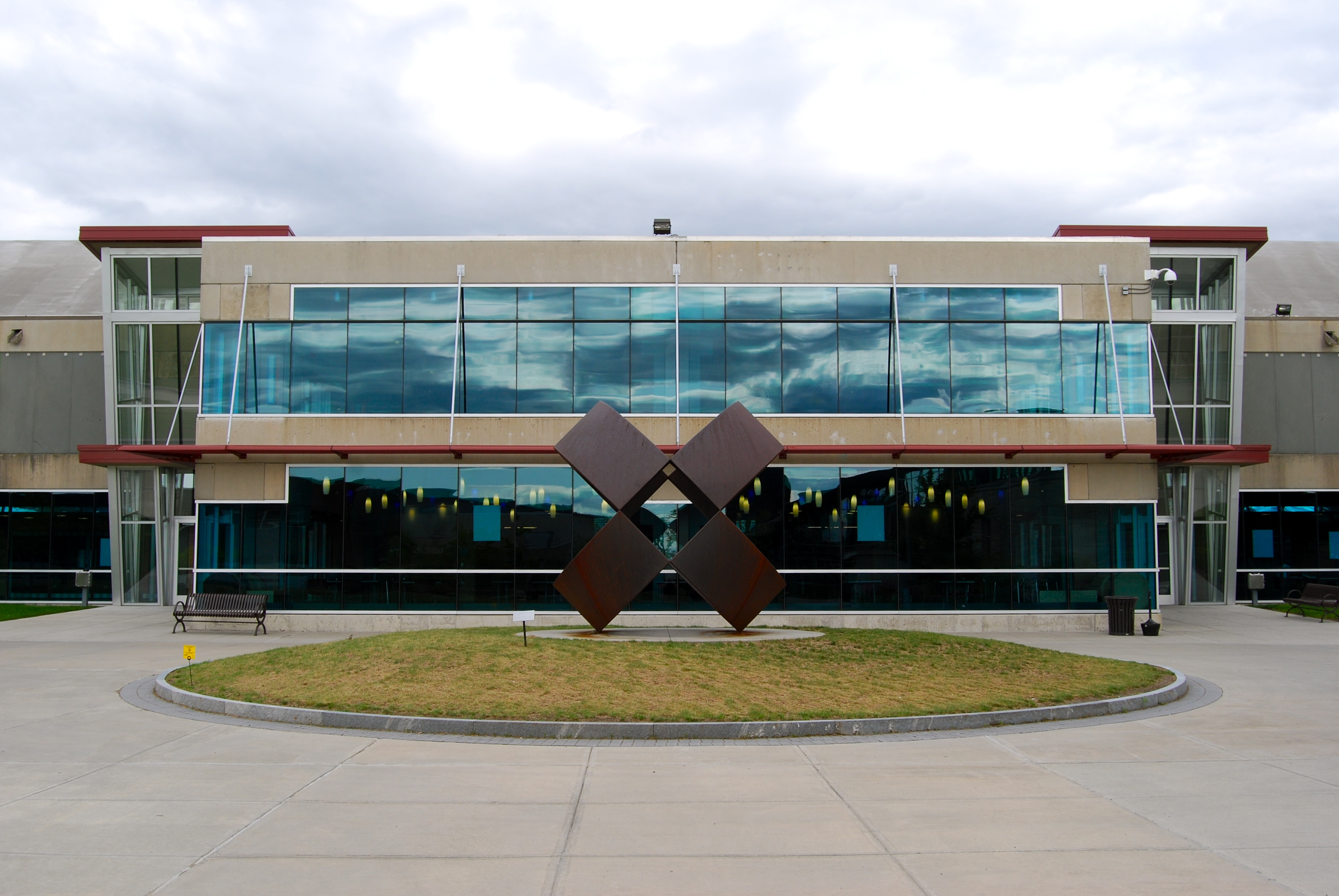 Siek Campus Center on the campus of Hudson Valley Community College in Troy, New York, United States